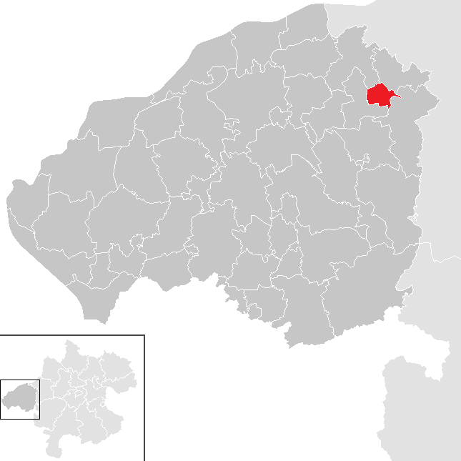 district Braunau am Inn